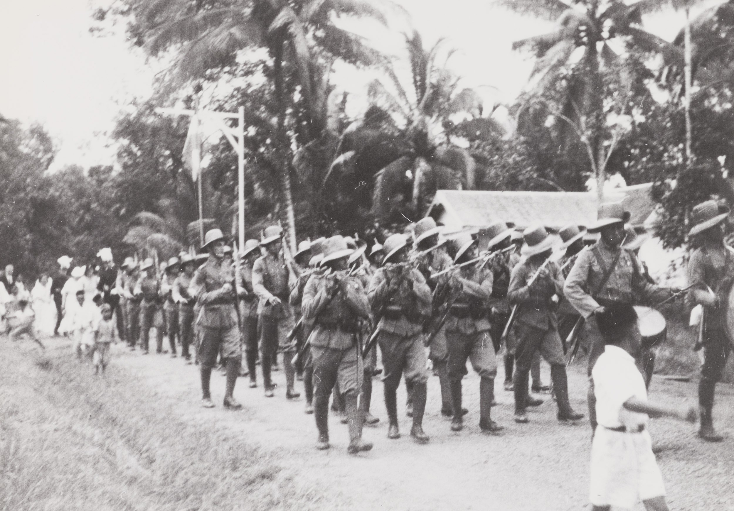 KNIL troops parading in Samarinda, 1935